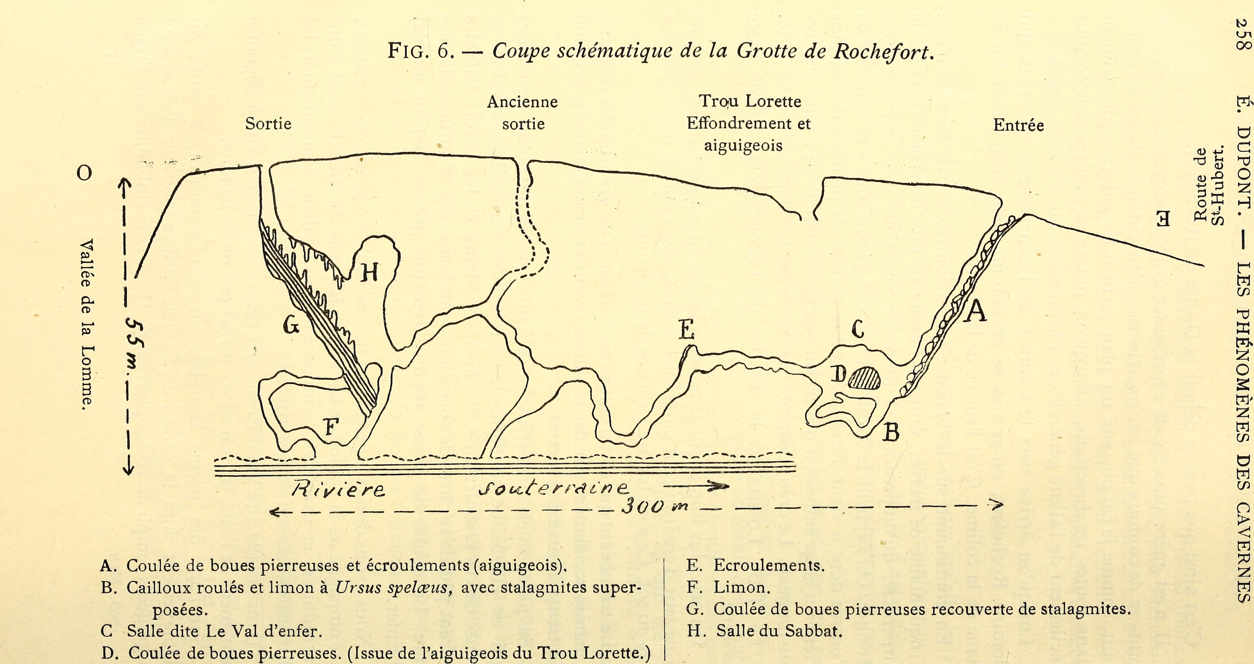 Title: Bulletin de la Société belge de géologie, de paléontologie et d'hydrologie Year: 1887 (1880s) Authors: Société belge de géologie, de paléontologie et d'hydrologie Subjects: Geology; Paleontology Publisher: Bruxelles : The society Text Appearing Before Image: ' Text Appearing After Image: '